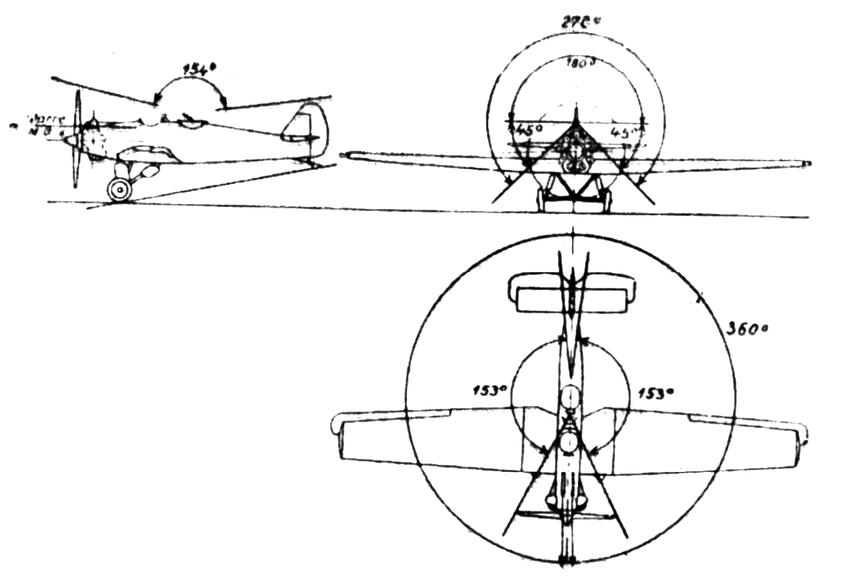 Junkers K 43 3-view arc of fire drawing from L'Aérophile April,1928